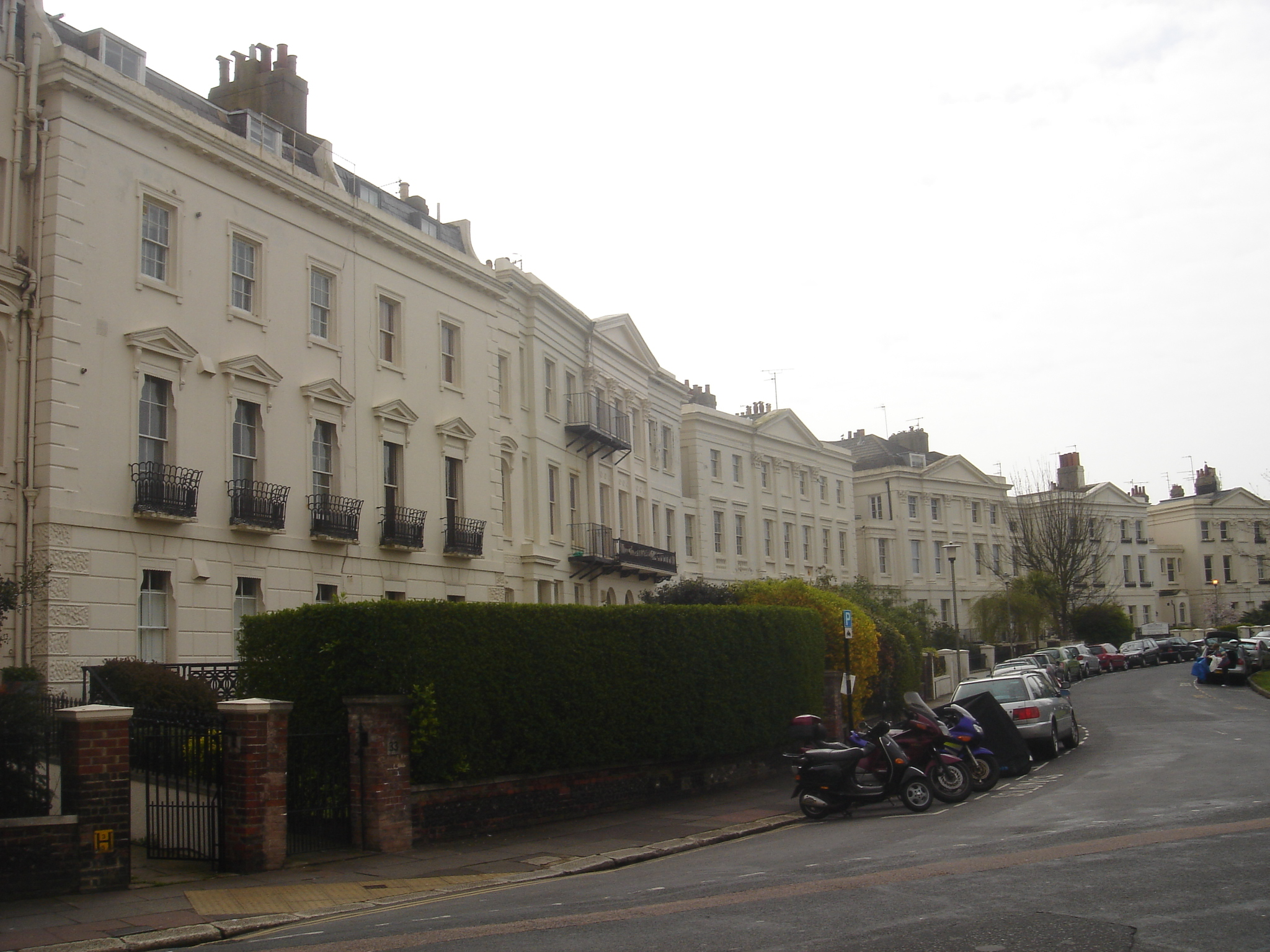 7–31 Montpelier Crescent, Seven Dials, Brighton, City of Brighton and Hove, England. Built in 1847. Only part of this section of the crescent is shown here. Listed at Grade II* by English Heritage (IoE Code 480450)